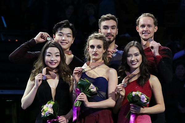 The ice dancing podium at the 2016 World Championships. From left: Maia Shibutani / Alex Shibutani (2nd), Gabriella Papadakis / Guilaume Cizeron (1st), Maia Shibutani / Alex Shibutani (3rd).